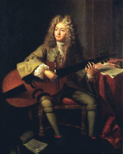 Portrait of Marin Marais (1656-1728), French composer